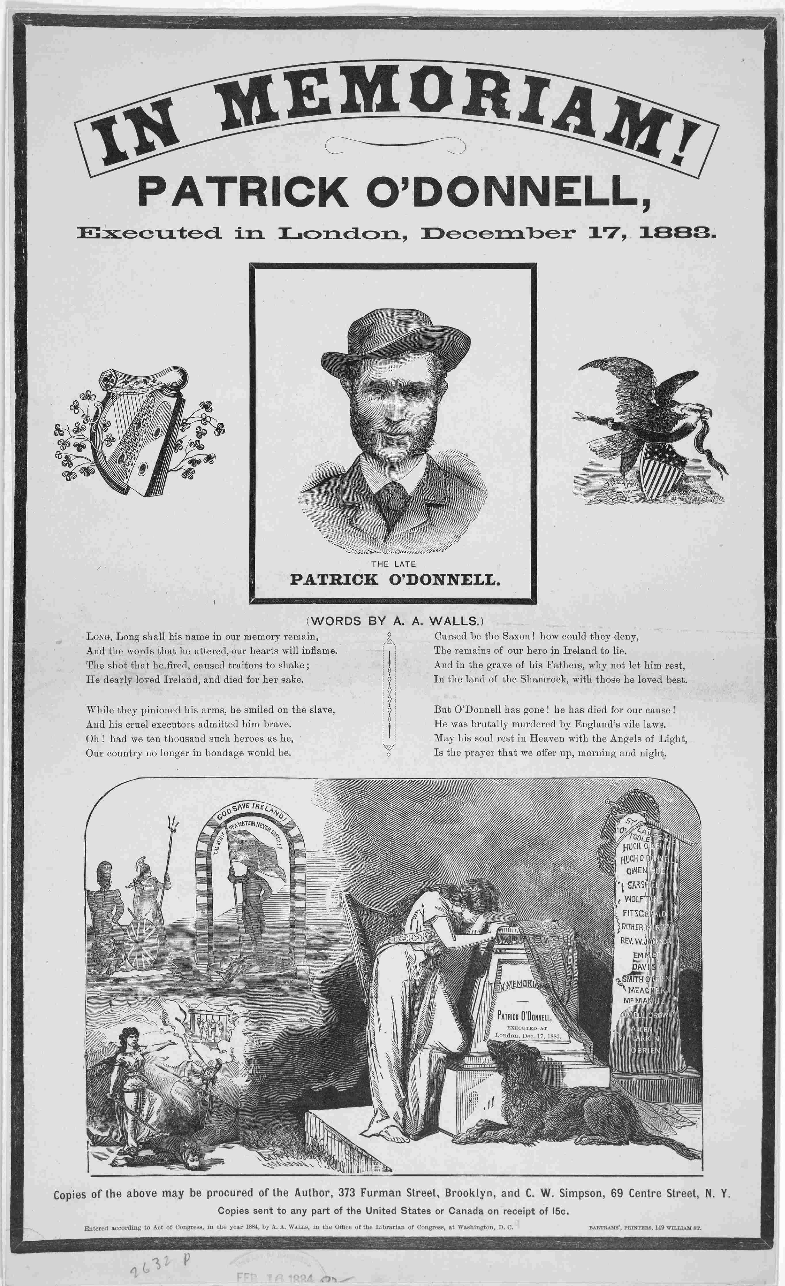 In Memoriam Patrick O'Donnell, executed London 1883